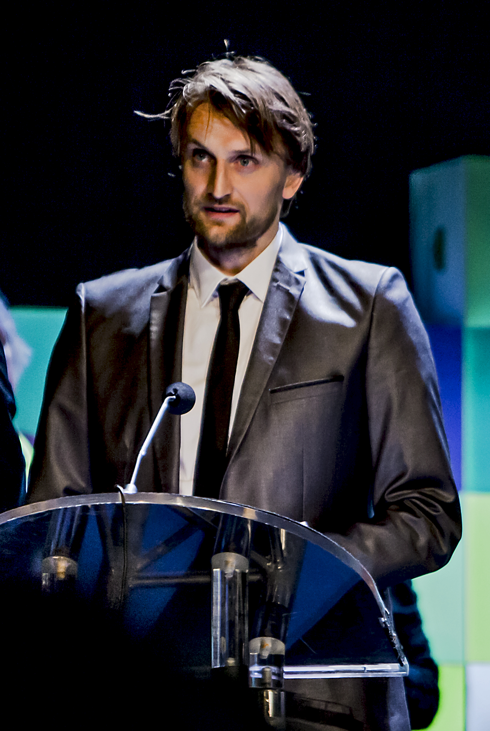 Foto: Jarle H. Moe